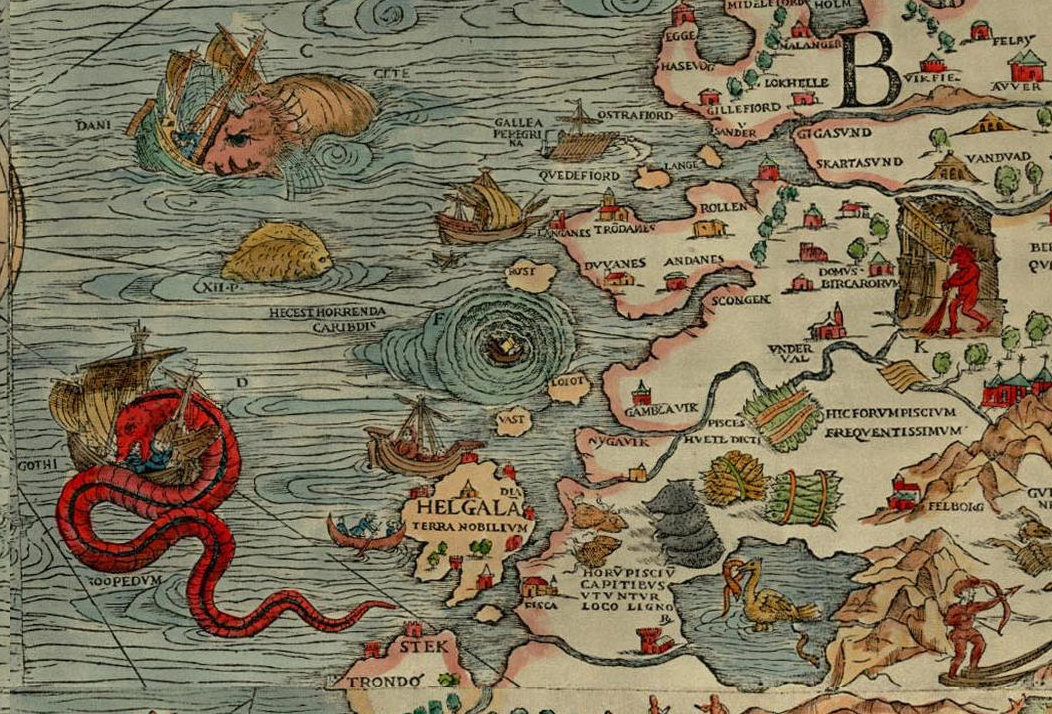 Cropped version of Image:Carta Marina.jpeg. Created by User:Berig